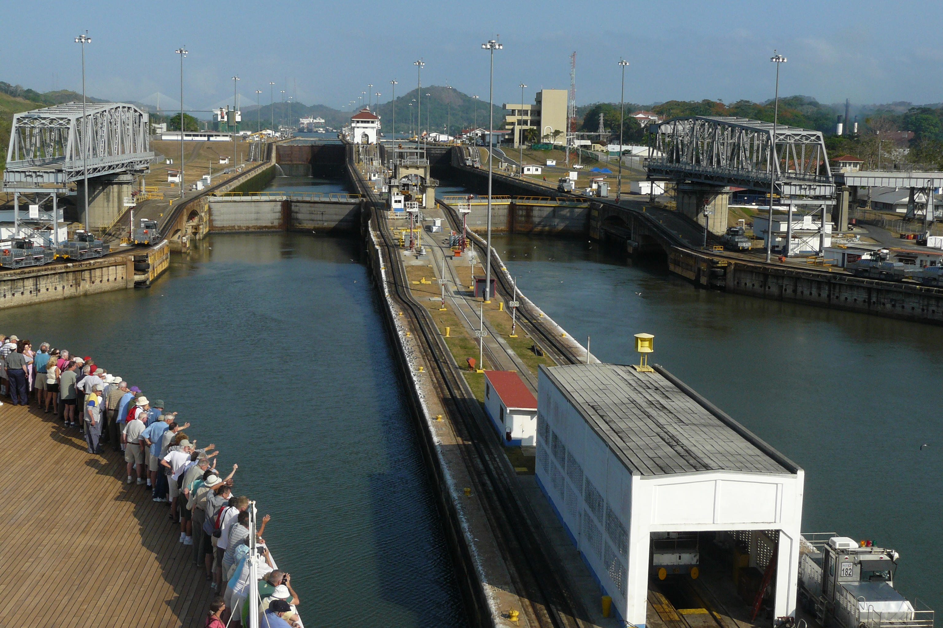 Entering the Miraflores locks